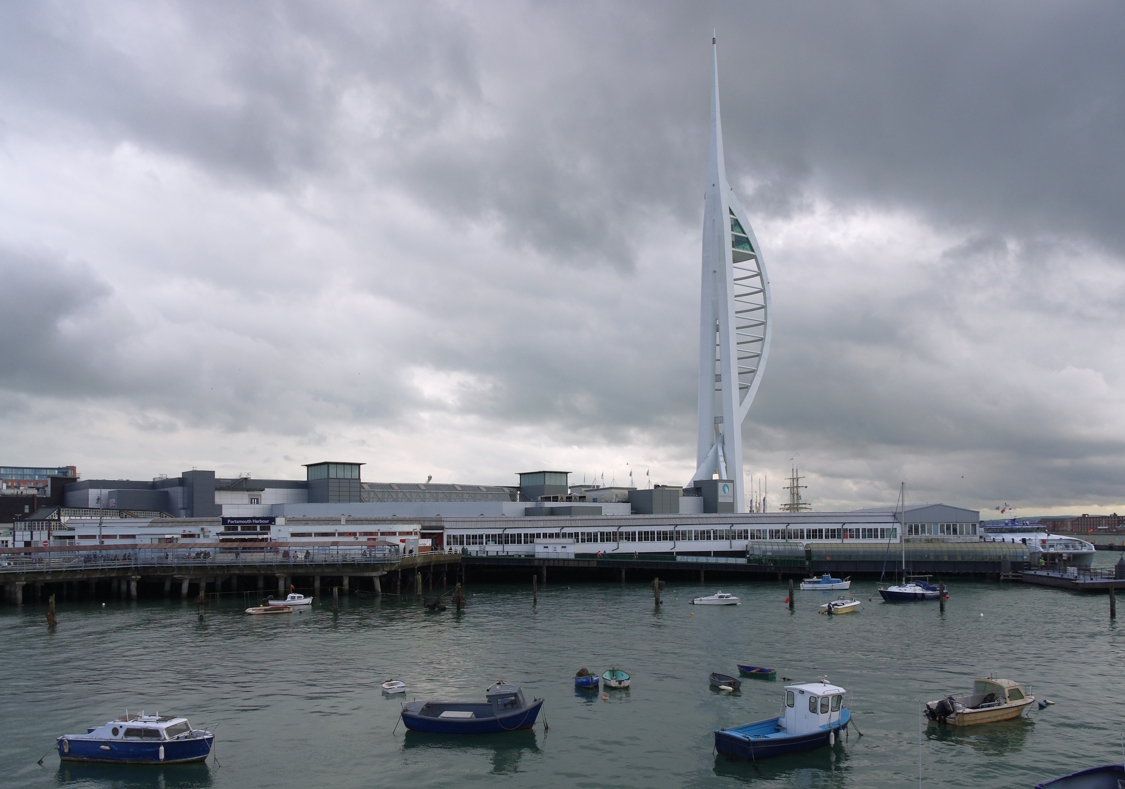 The Spinnaker and Portsmouth Harbour railway station.